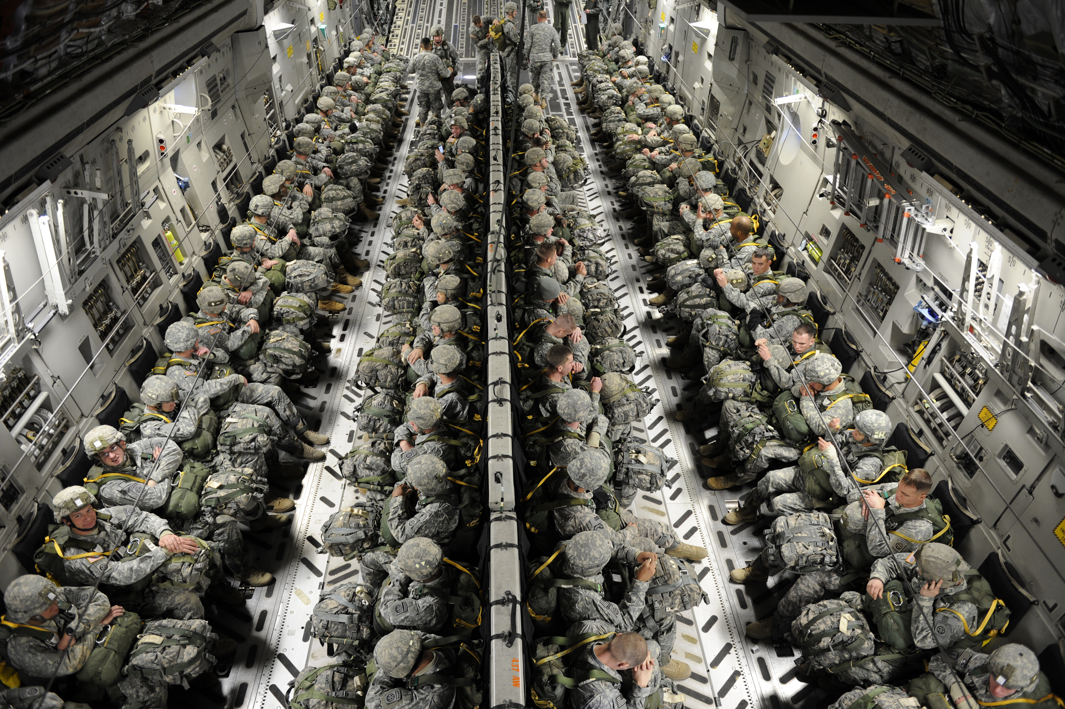 U.S. Army paratroopers from the 82nd Airborne Division sit strapped into a U.S. C-17 Globemaster III before they airdrop during the Joint Operational Access Exercise (JOAX) at Pope Air Force Base, N.C., Feb. 9, 2011. JOAX is a two-week exercise that includes Large Package Week and Joint Operational Access. It includes the 82nd Airborne Division, U.S. Air Force C-130 Hercules and C-17 and various other Air Force support assets such as security forces, contingency response group, and tactical air control party members. The exercise prepares Airmen and Soldiers to respond to world-wide crises and contingencies.